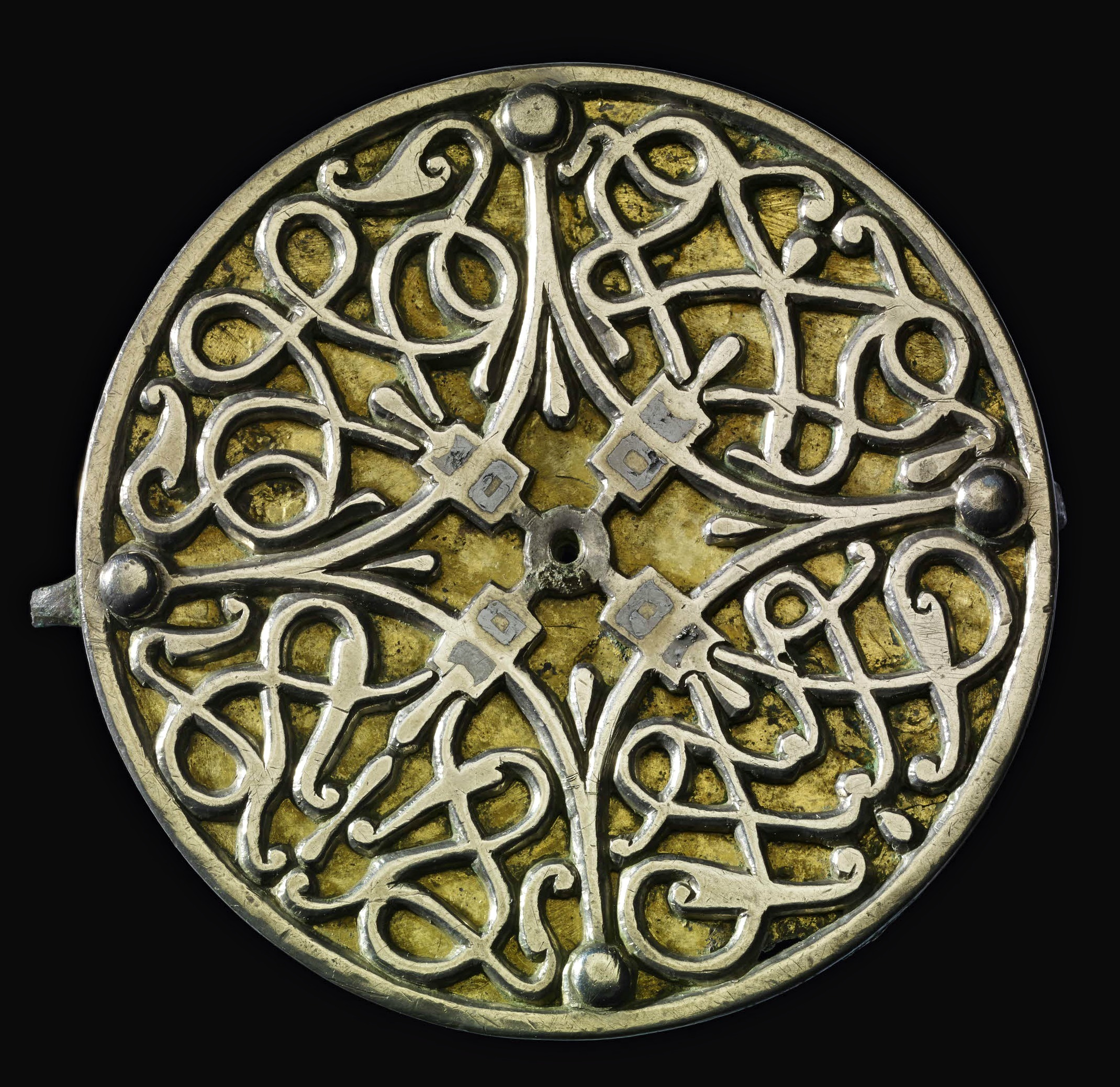 One of six disc brooches of the Pentney Hoard. It consists of a copper alloy base with a silver face. Early 9th century.